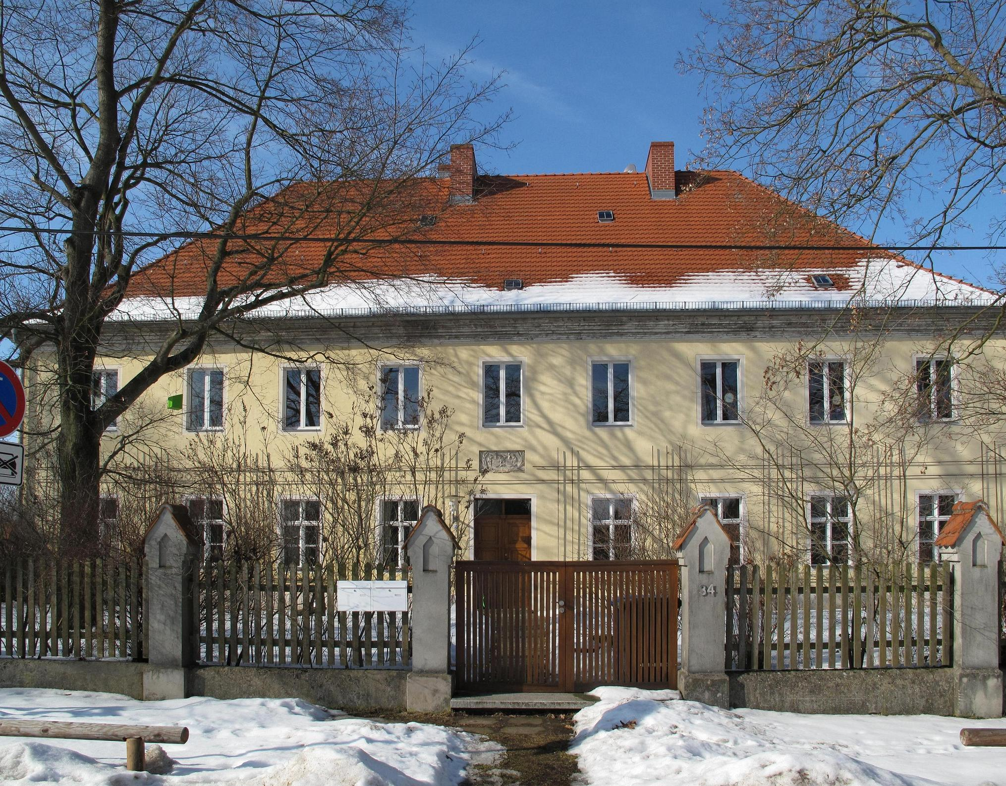 Listed former manor house, built in 1720, in Gröben. Gröben is a part of Ludwigsfelde in the district Teltow-Fläming, state Brandenburg, Germany.